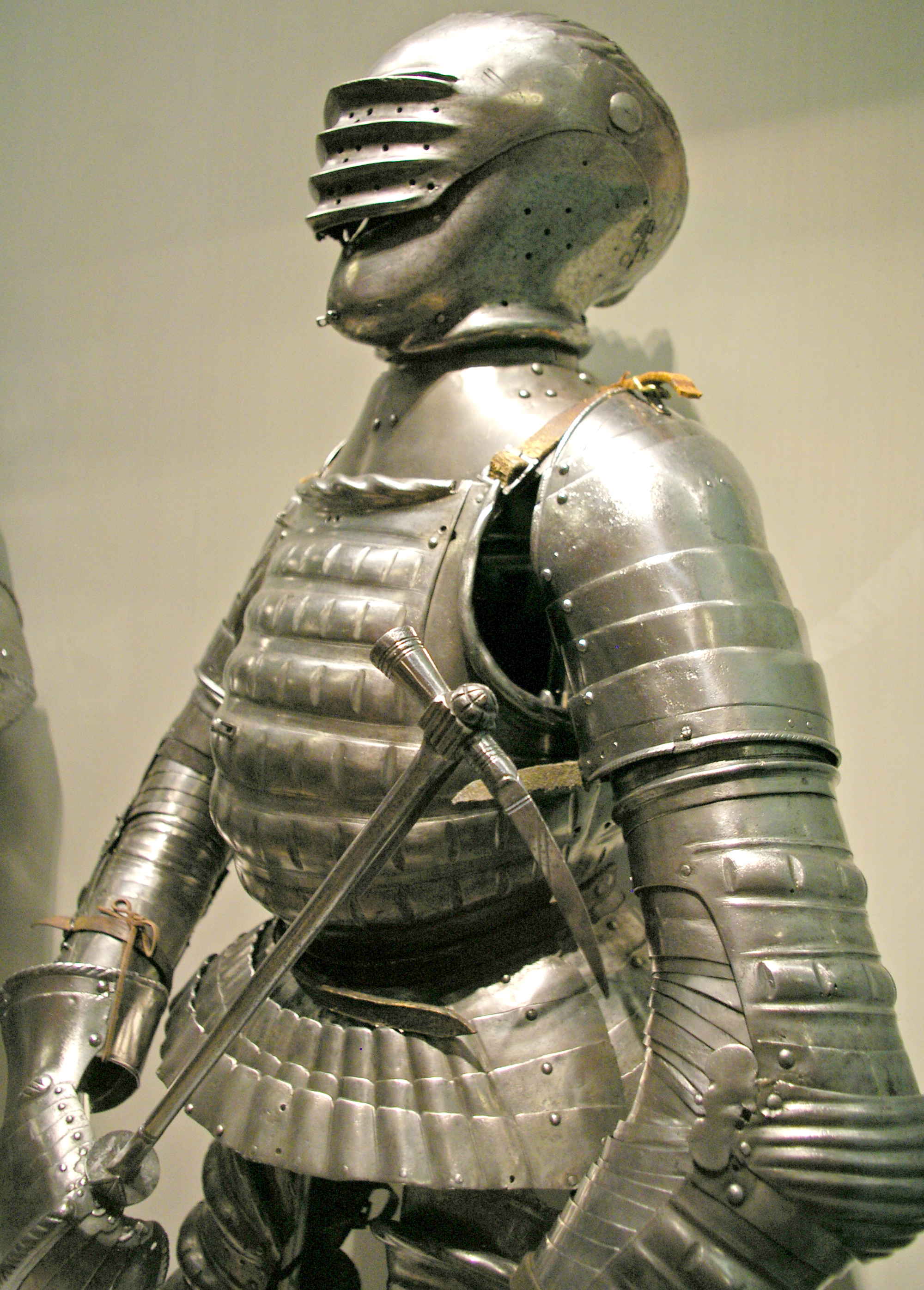 This is a Raven's Beak or warhammer, exhibited in the Deutsches Historisches Museum in Berlin.